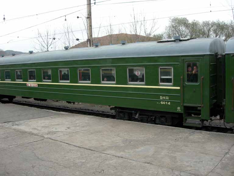 A train which runs between Shinwiju and Pyongyang .